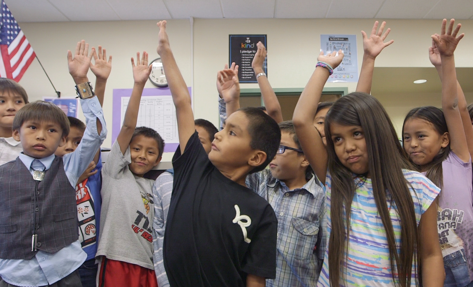 Original description: "Navajo class at Indian Wells Elementary School" Further information from source publication: "Navajo class: On the reservation itself, Navajo language instruction in schools starts at a young age. At Indian Wells Elementary School, third graders are learning how to read, write, and speak Navajo. The school opened in 2001. Dr. Robbie Koerperich was Indian Wells’ first principal. Now, he is the superintendent of the Holbrook Unified School District and says the district is concerned with preserving the Navajo language. (...)"